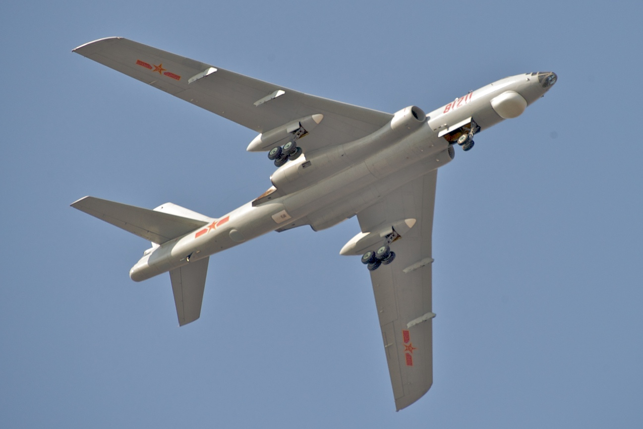 PLAAF Xian H-6M makes a turn over central Changzhou